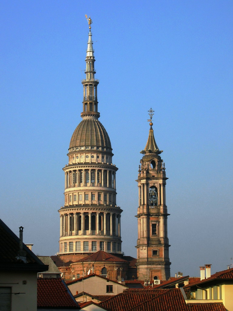 Novara - Antonelli's neoclassical dome (built in the XIX century - 121 m) and bell tower (built in the XVIII century) of San Gaudenzio basilica (built between the XVI and the XVII century).